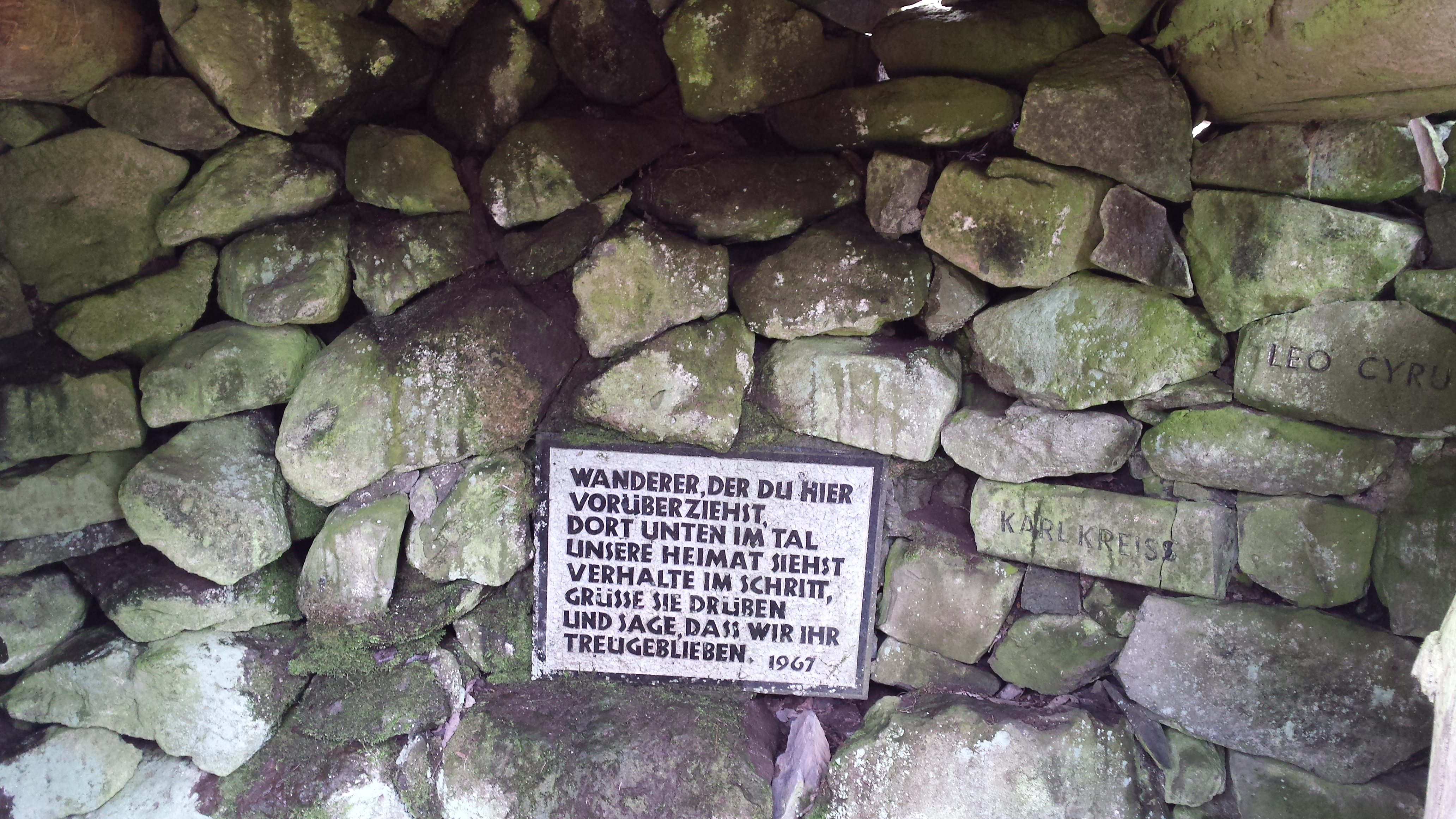 Heimatblick Memorial Plate on the top of the Rhönkopf, Lange Rhön, near Fladungen, Kreis Rhön-Grabfeld, Bavaria, Germany